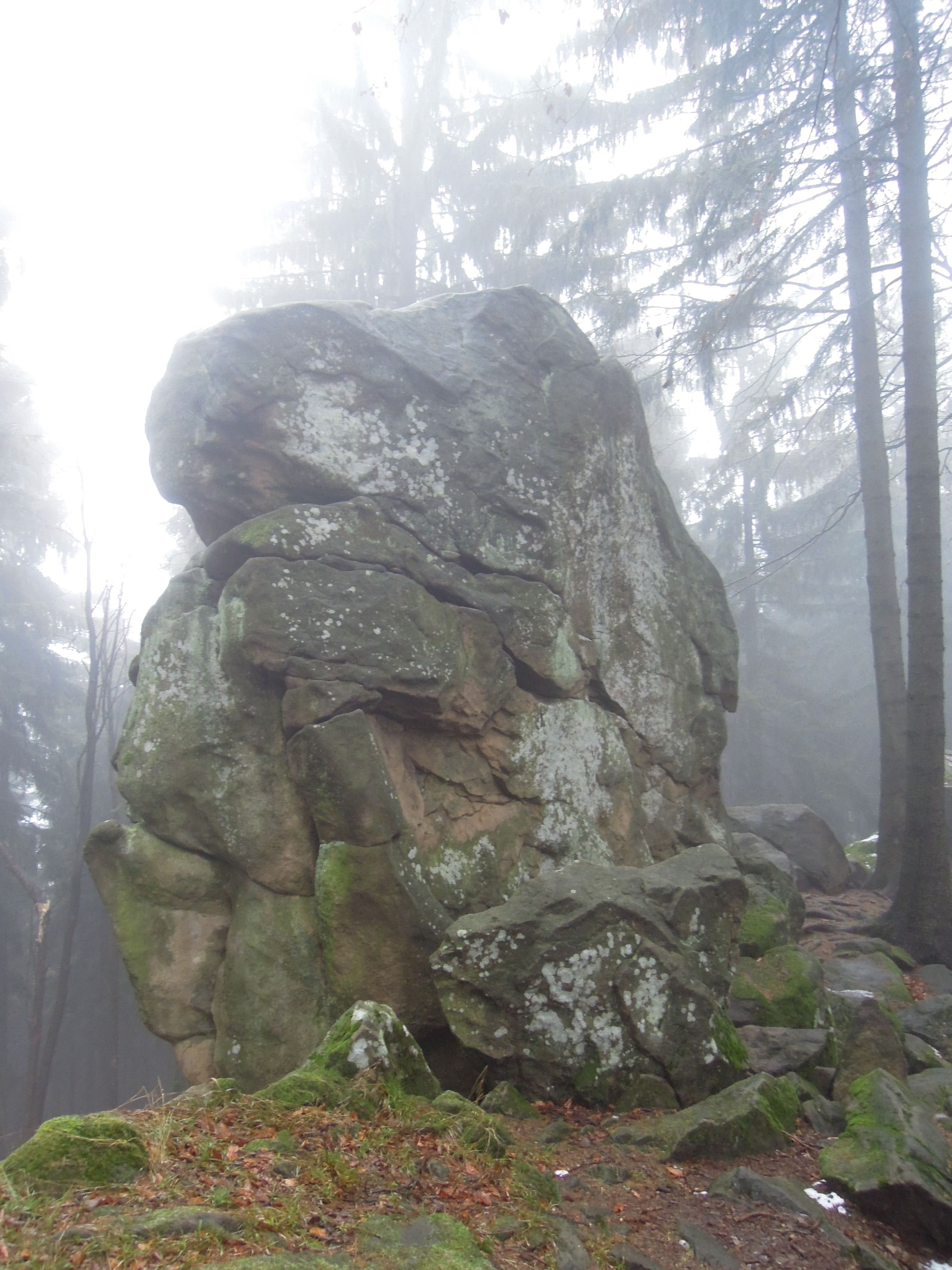 Svantovítova skála natural monument, Vsetín District, Zlín Region, Czech Republic